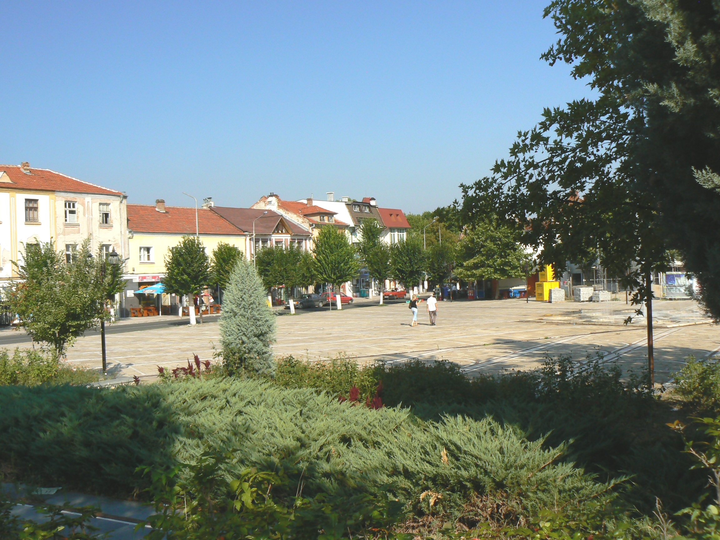 Momchilgrad, Bulgaria: The town centre